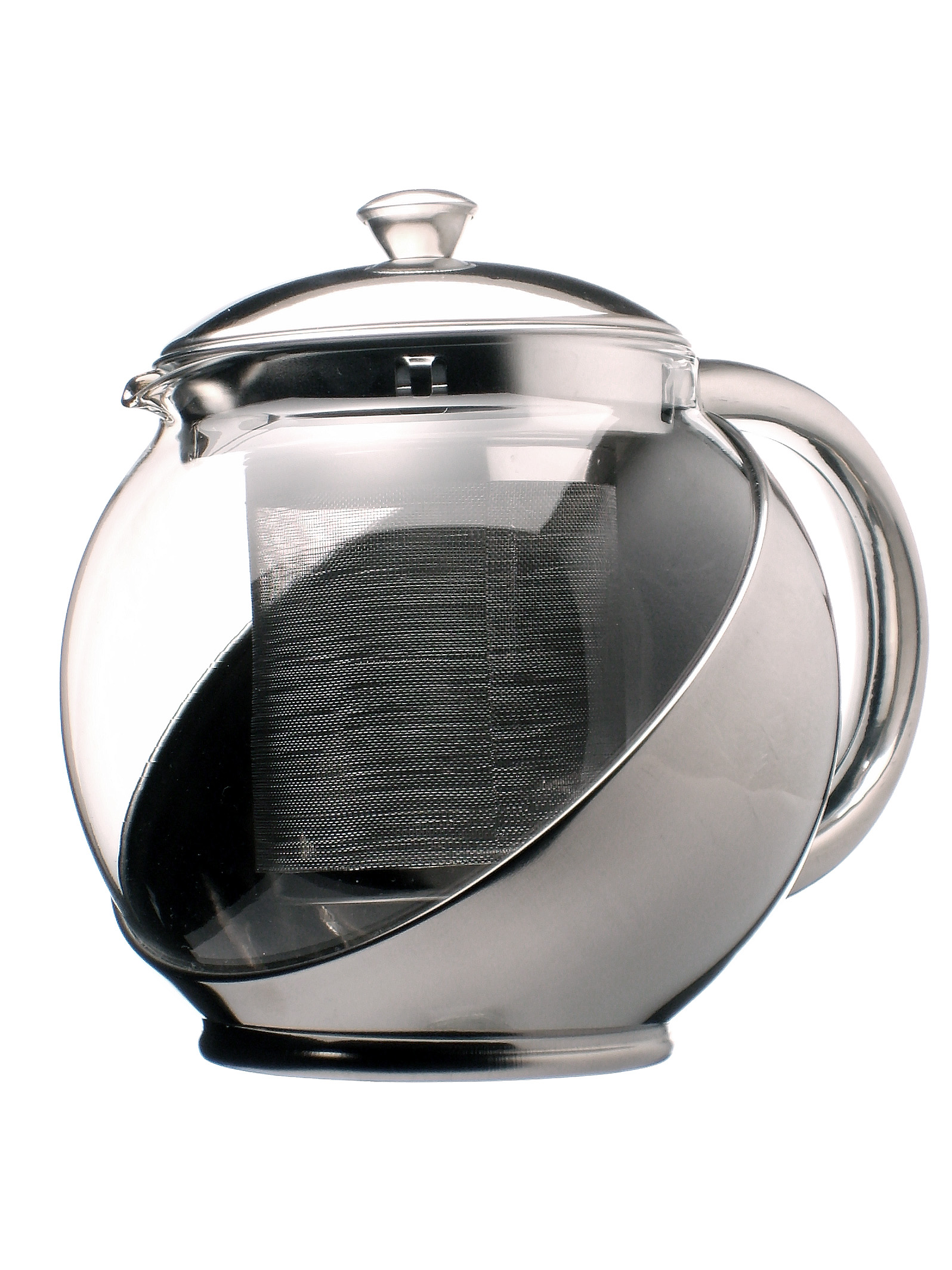 Glass teapot.